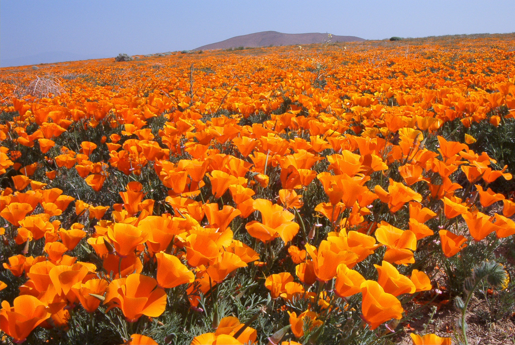 California poppies - Eschscholzia californica, in bloom at the Antelope Valley California Poppy Reserve, a state-protected reserve land located in the rural westside of the Antelope Valley in northern Los Angeles County, Southern California.